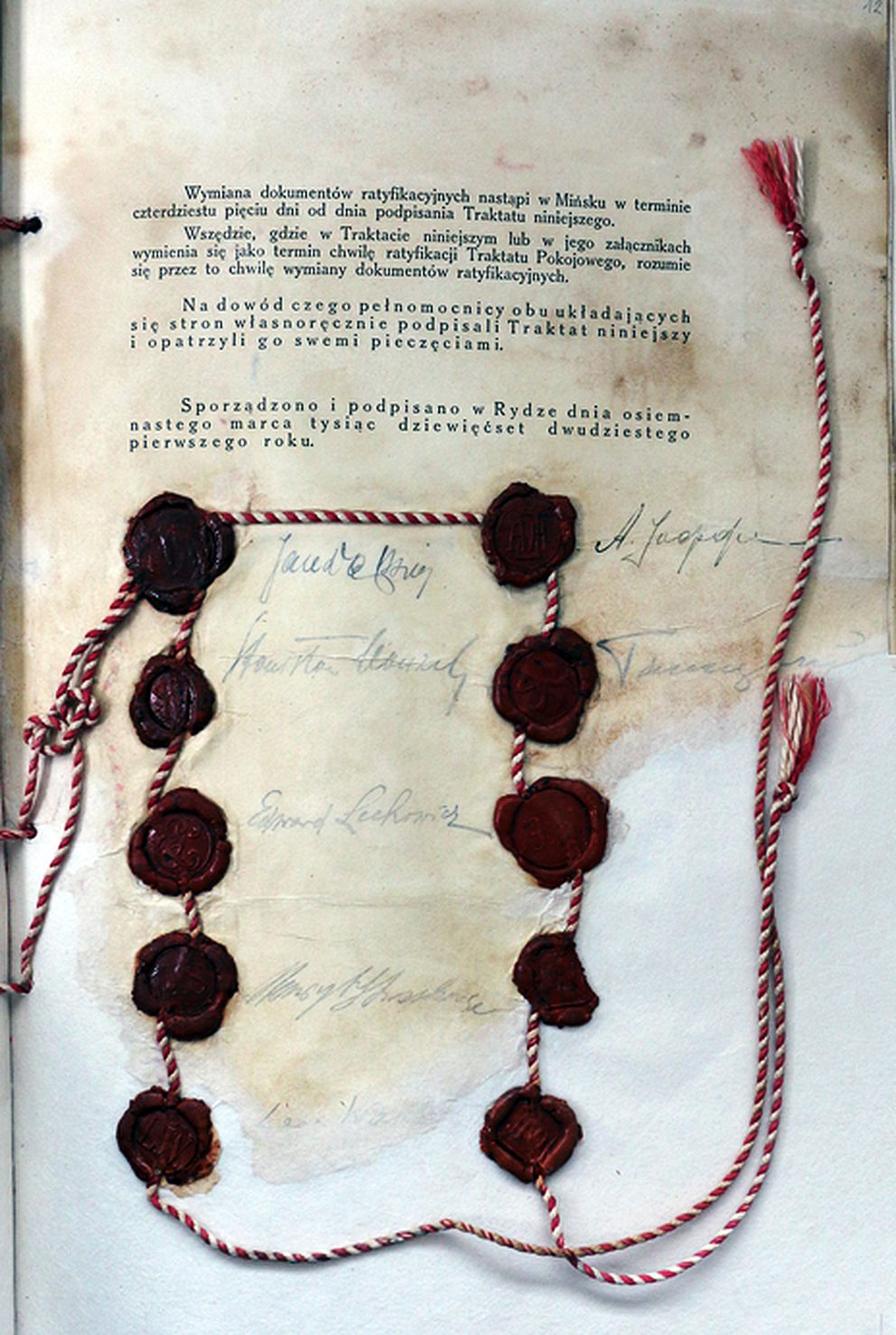 Document of Riga Peace Treaty, ending Polich-Soviet war (1919-1920)